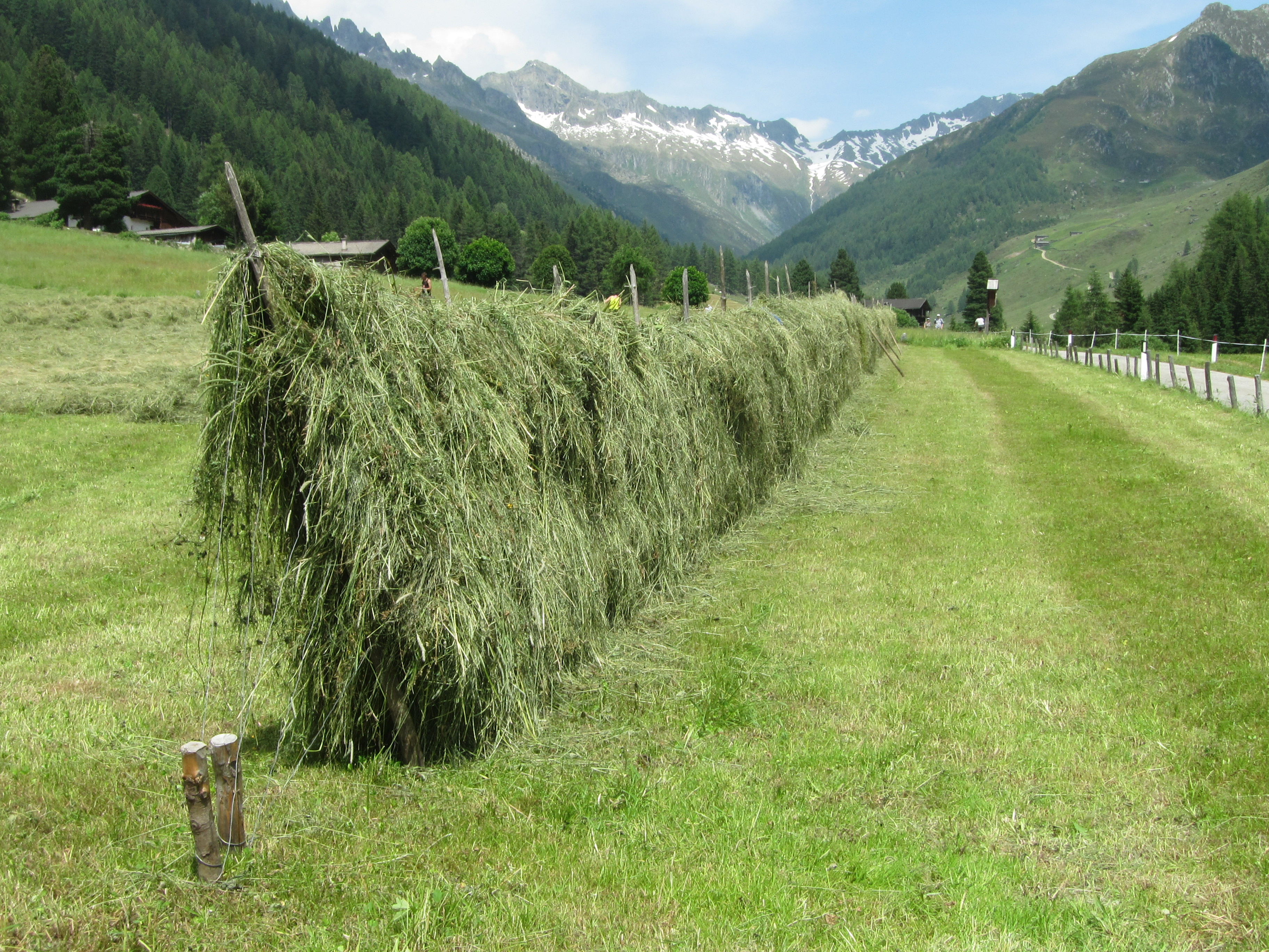 Haystacks in Caserne (South Tyrol)